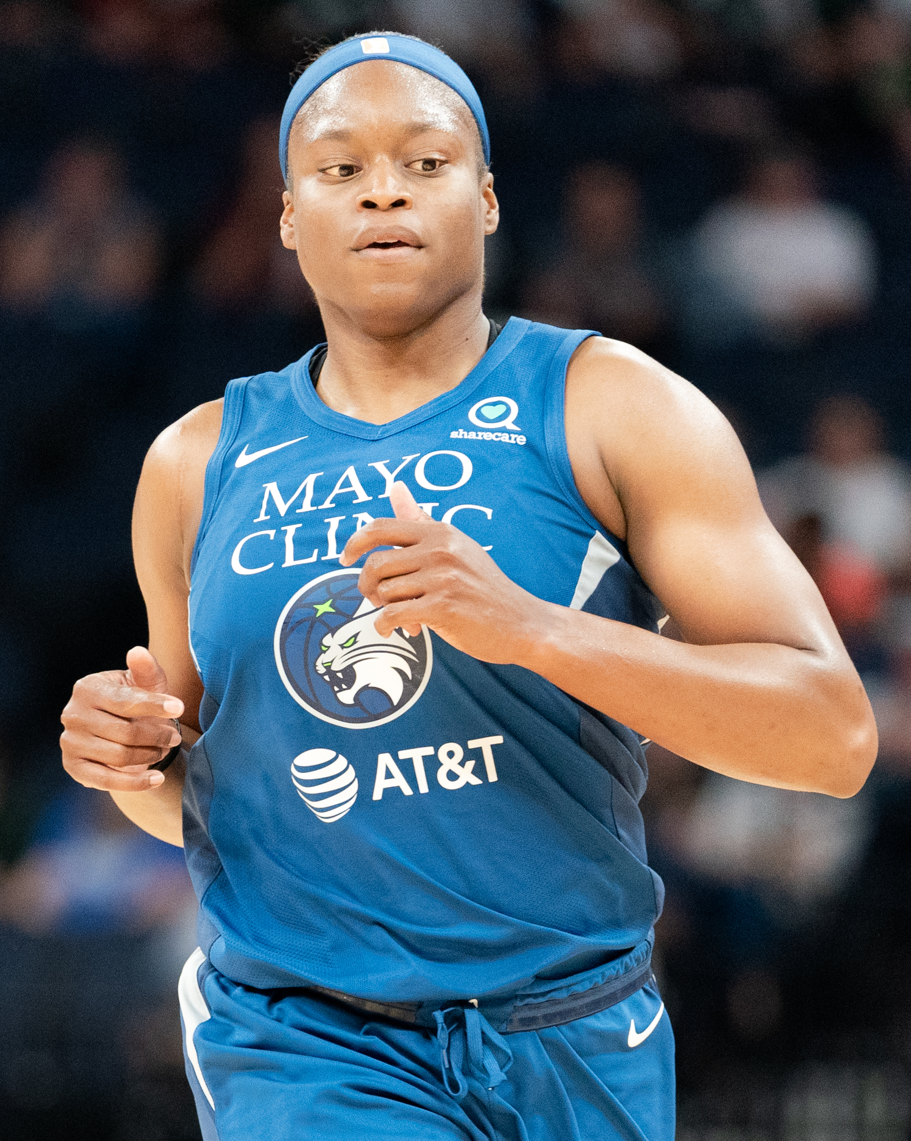 Minnesota Lynx player Karima Christmas-Kelly playing in a game against the Connecticut Sun